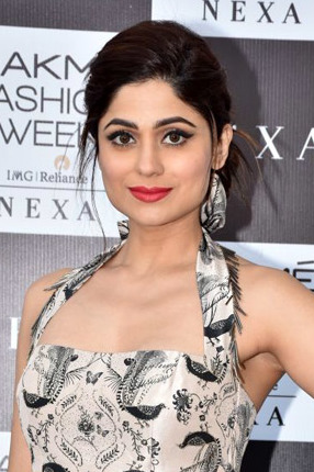 Shamita Shetty graces the red carpet of Lakme Fashion Week 2018, Feb 15, 2018